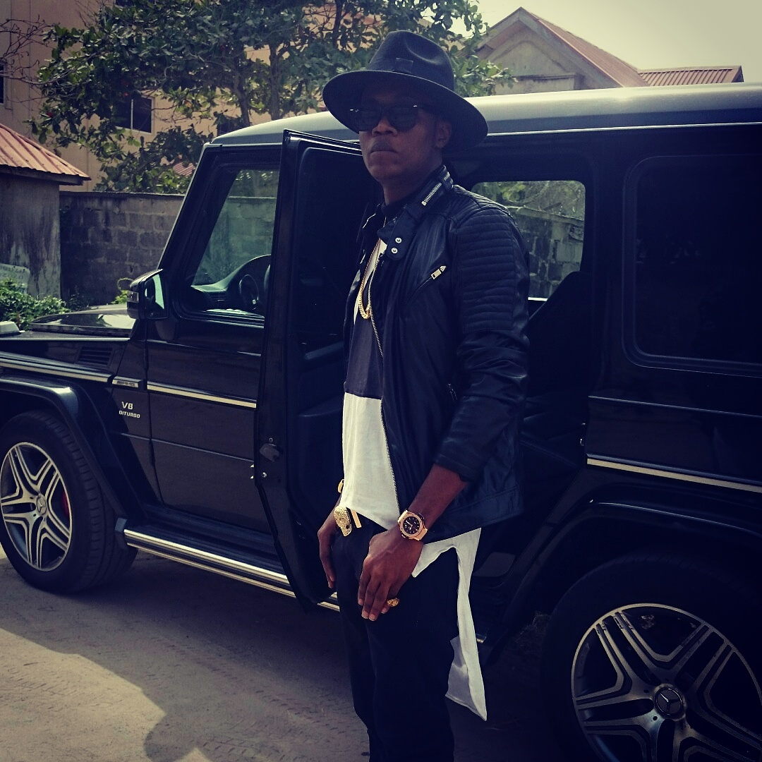 Da Emperor standing beside his G wagon Other information Da Emperor standing beside his Gwagon in behind the scene of his "I'm a sinner video"